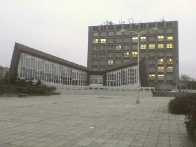 KOKOS building (3105 Sítná Square) in Kladno-Kročehlavy, Kladno District, Central Bohemian Region, Czech Republic. The 1984 building was designed by Václav Hilský as district headquarters of then ruling Communist party. Since 2005 most of the building has been occupied by Faculty of Biomedical Enineering of Czech Technical University. The name KOKOS, nowadays a semi-official designation of the building (literally: coconut), originally arose as an acronym for mocking expression KOmunistický KOStel (Communist church).